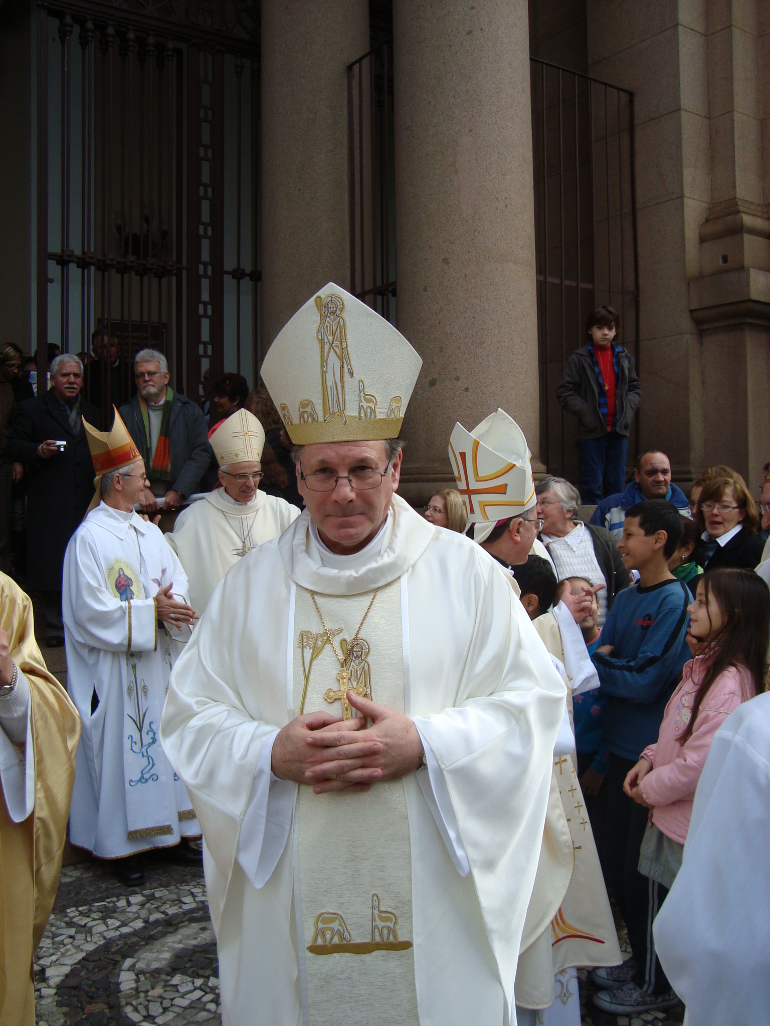 Jacinto Bergmann, Catholic Bishop of Pelotas, Brazil